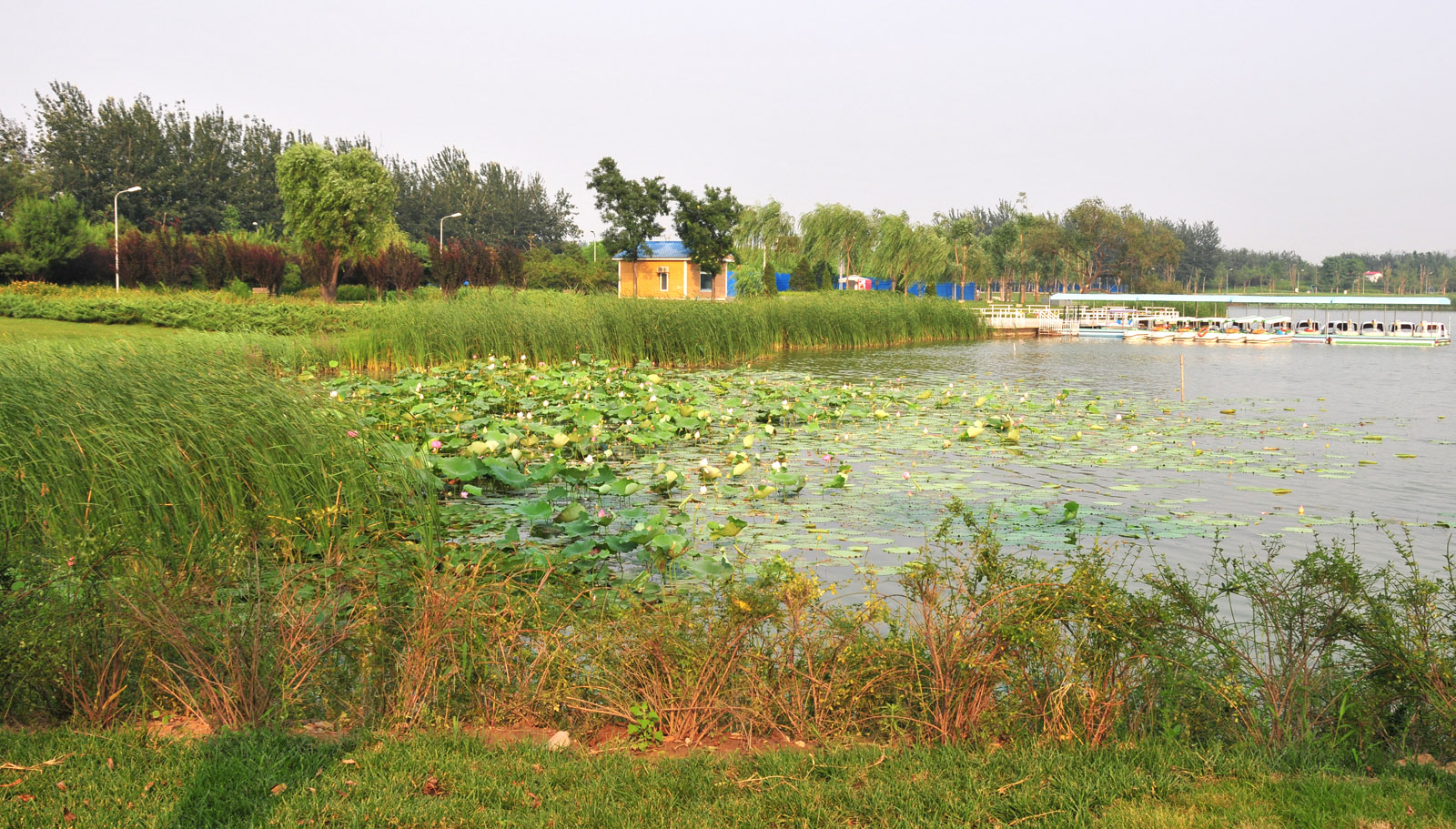 The lake in the Chaoyang Park in Beijing